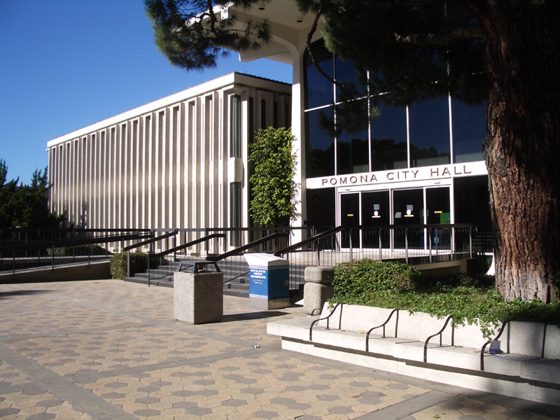 City Hall at the Pomona Civic Center - Pomona, Southern California. Designed in the 1960s by Welton Becket & Associates and B.H. Anderson, the Pomona Civic Center opened in January 1969.